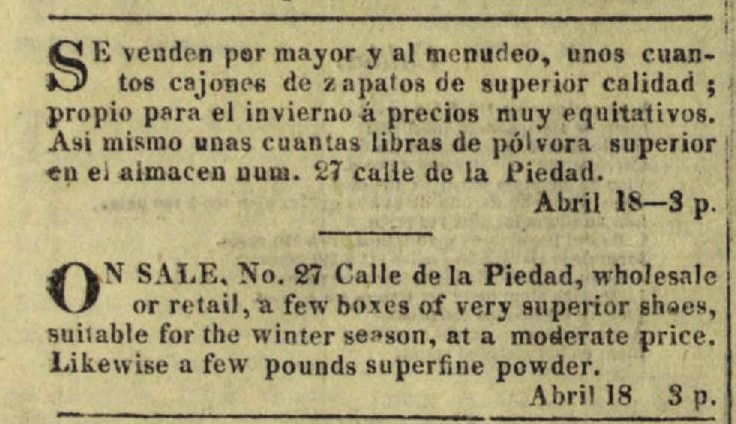 Advertisement regarding sale of fine shoes and gunpowder in No. 27 Calle de la Piedad, Buenos Aires.